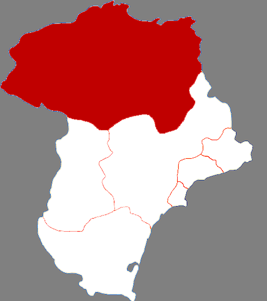 Location of Qinglong Manchu Autonomous County in Qinhuangdao City, China